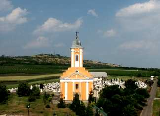 Roman Catholic church in Szűcsi, Hungary